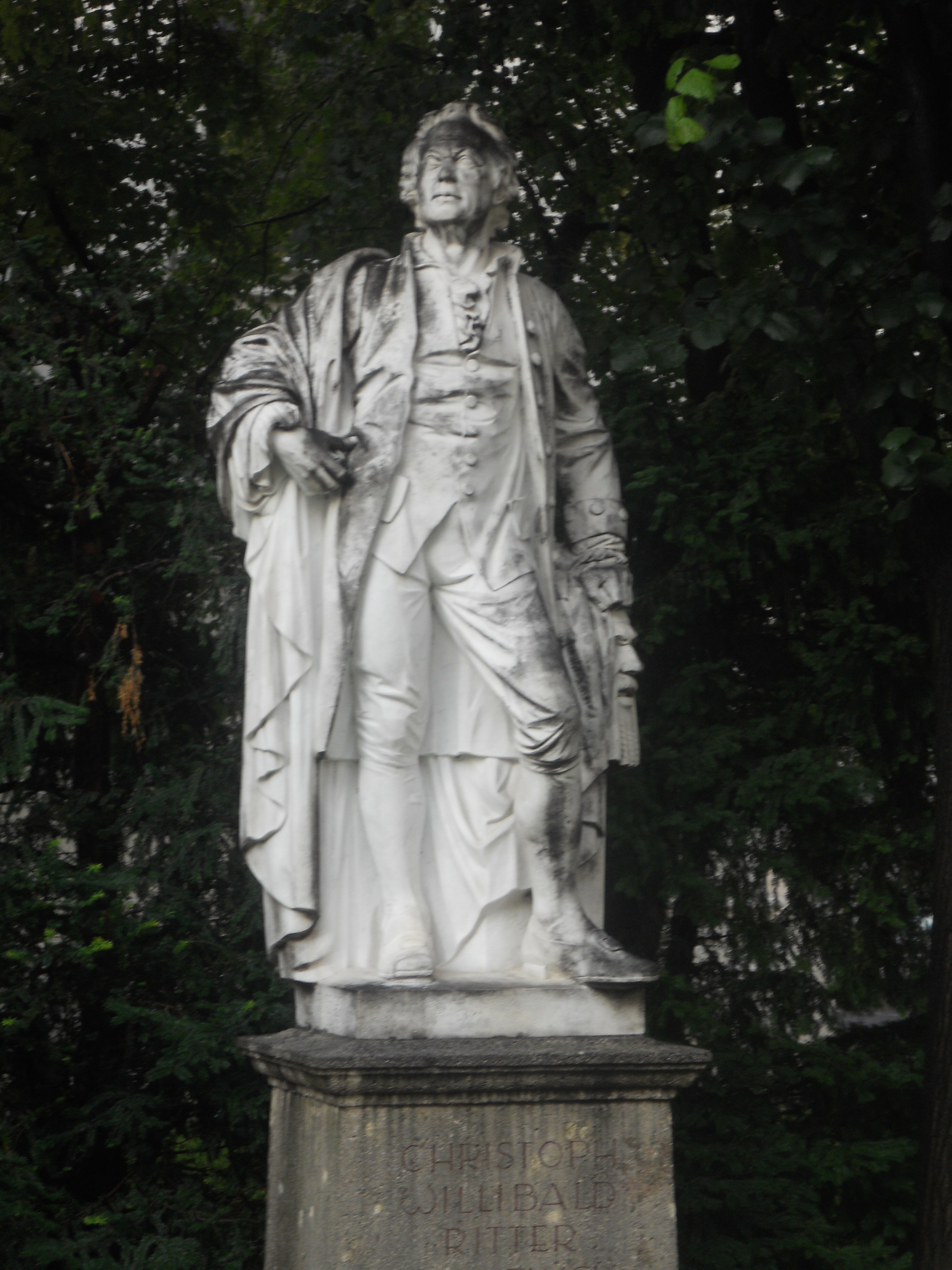 The monument to Christoph Willibald Gluck in Vienna